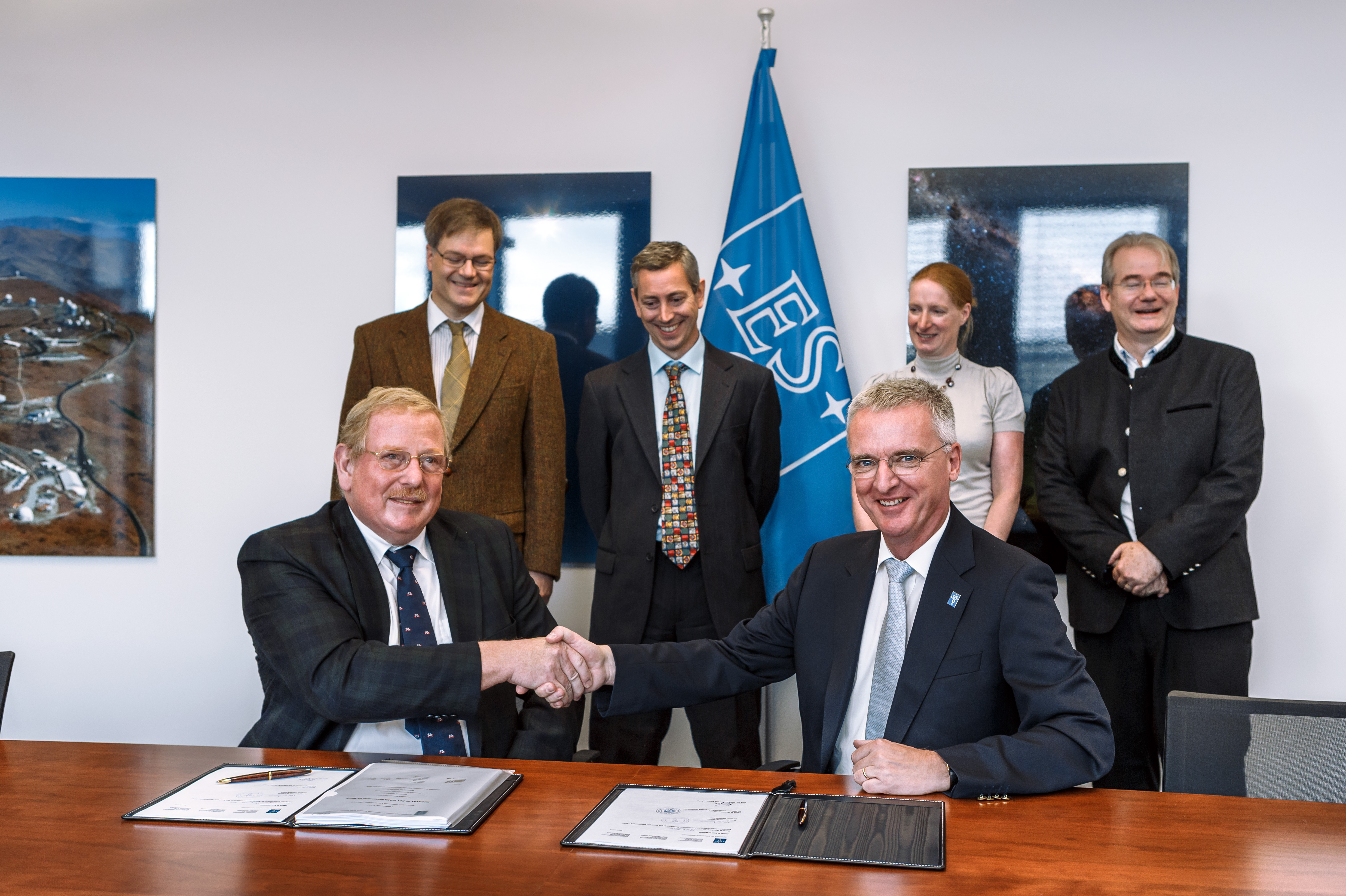 On 18 September 2015 ESO signed an agreement with a consortium of institutes across Europe, to design and construct the MICADO camera (Multi-AO Imaging Camera for Deep Observations), one of the first-light instruments for the European Extremely Large Telescope (E-ELT). MICADO will be the first dedicated imaging camera for the giant telescope and will take the power of adaptive optics to the next level. This picture shows the signing ceremony, with the Director of the Max Planck Institute for Extraterrestrial Physics left, and the ESO Director General Tim de Zeeuw right. In the background from left are: Florian Kerber (Project Manager, ESO), Richard Davies (MPE, Principal Investigator), Suzanne Ramsay (Project Scientist, ESO) and Eckhard Sturm (Project Manager, MPE).